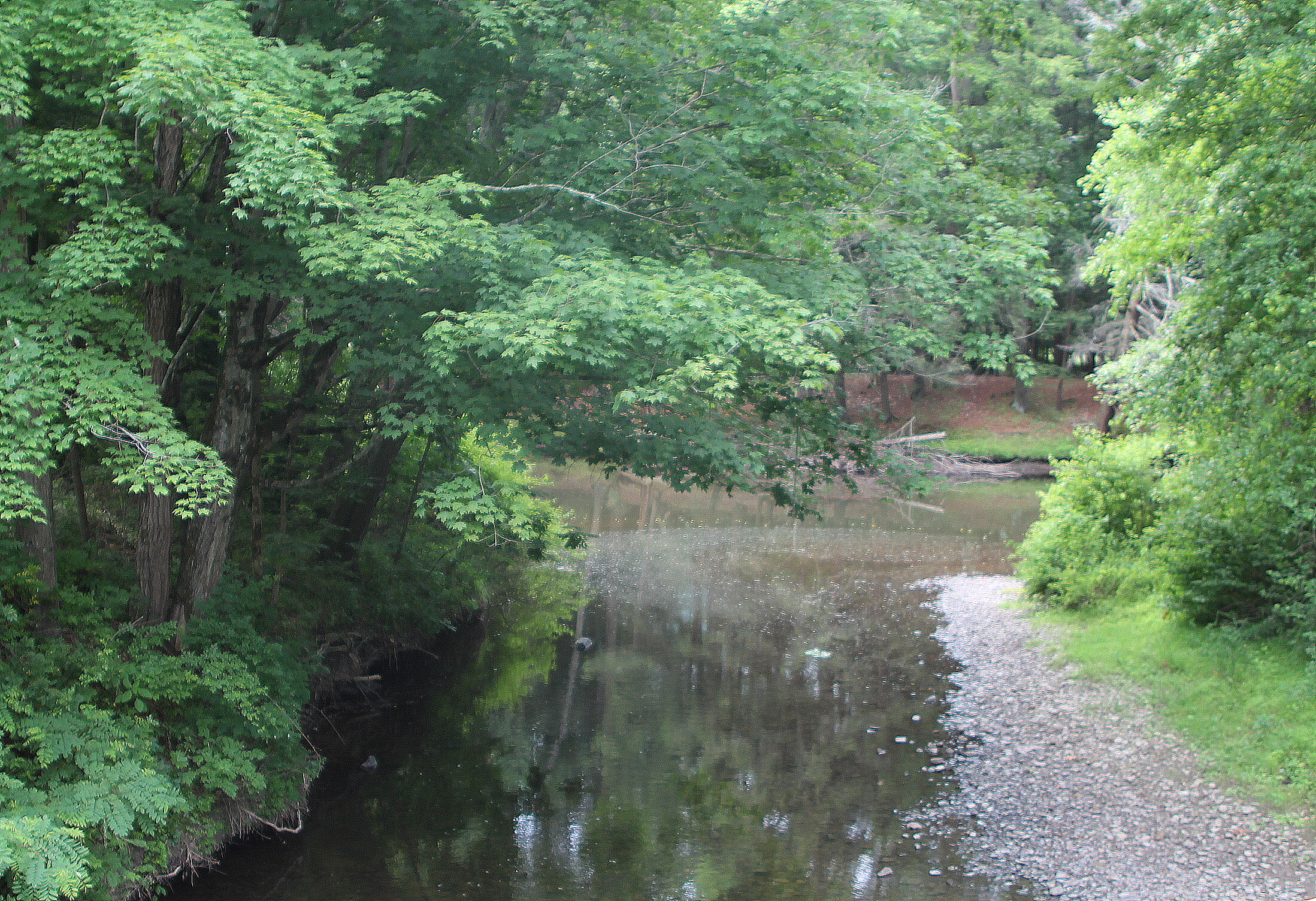 Mouth of Pine Creek in Jonestown, Columbia County, Pennsylvania. Huntington Creek is seen in the background.